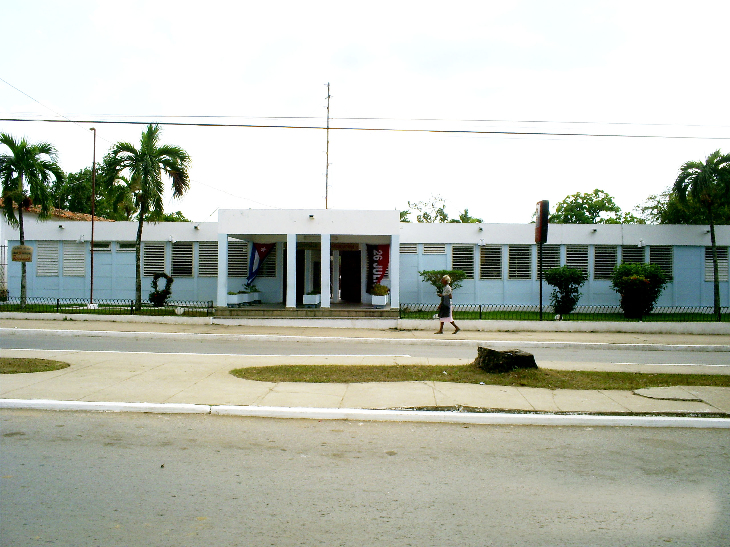 Cuban Communist Cleft (PCC), San Luis, Pinar del Río, Cuba.